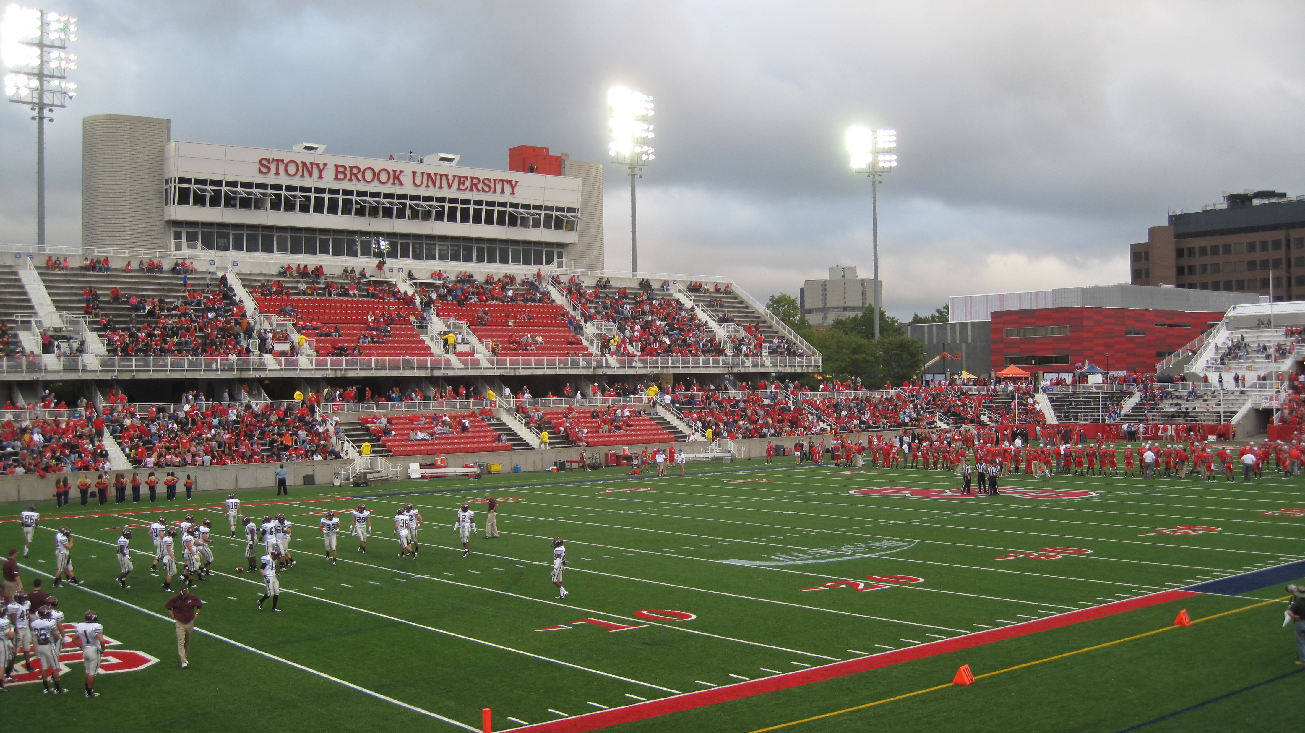 Stony Brook vs. Colgate Homecoming Sept. 28, 2012 6pm